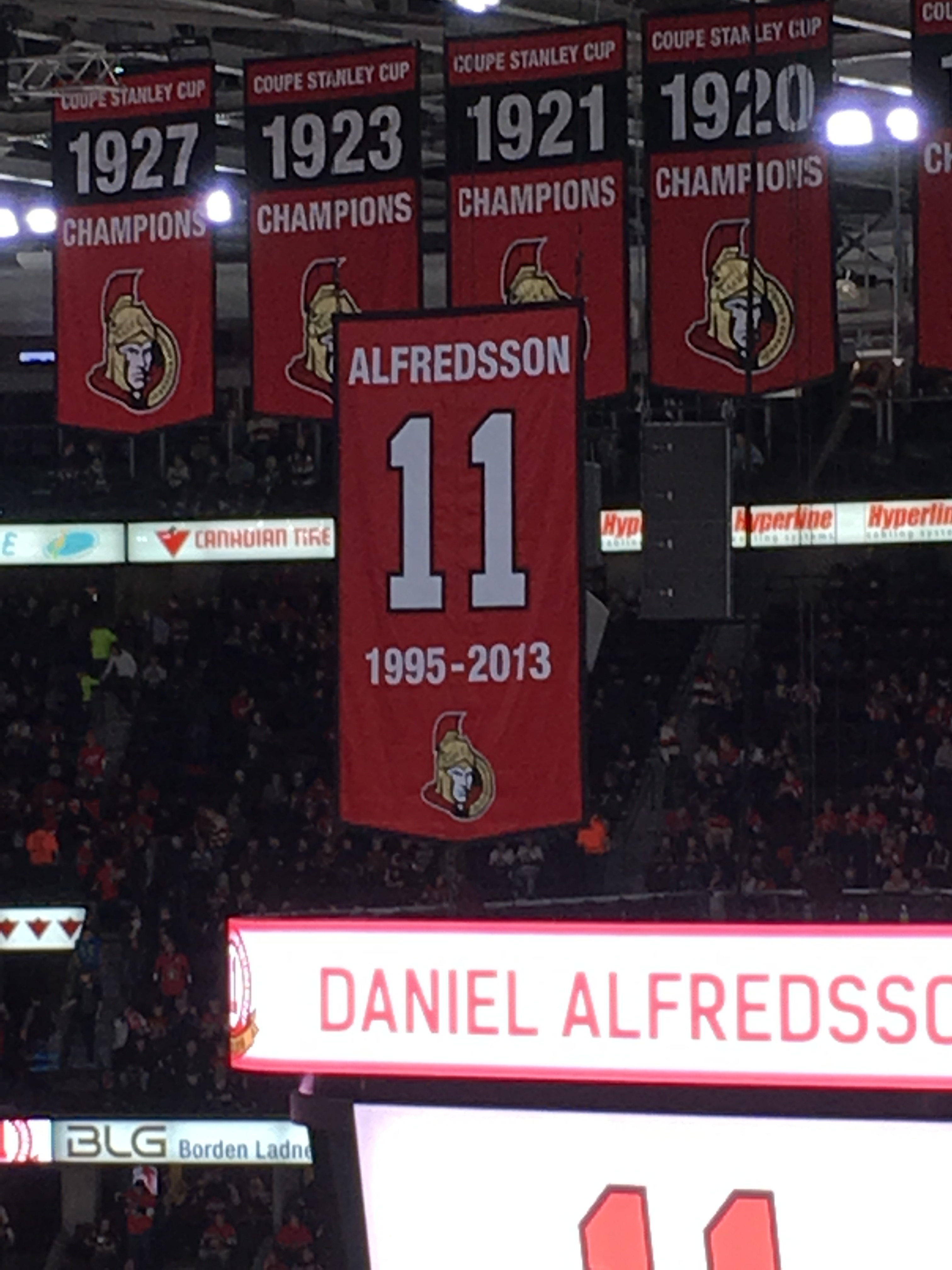 Picture of Daniel Alfredsson's Jersey Retirement Banner, taken at Canadian Tire Centre on December 29, 2016.